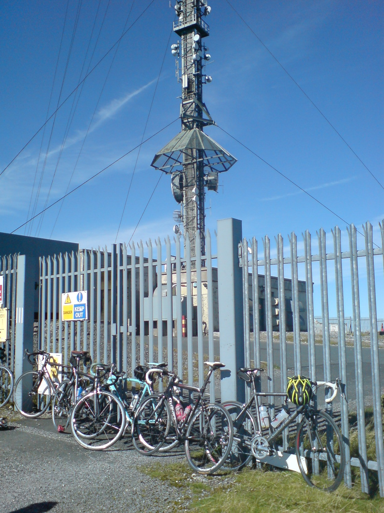 The base of the TV mast on Kippure Mountain, Wicklow, Ireland.